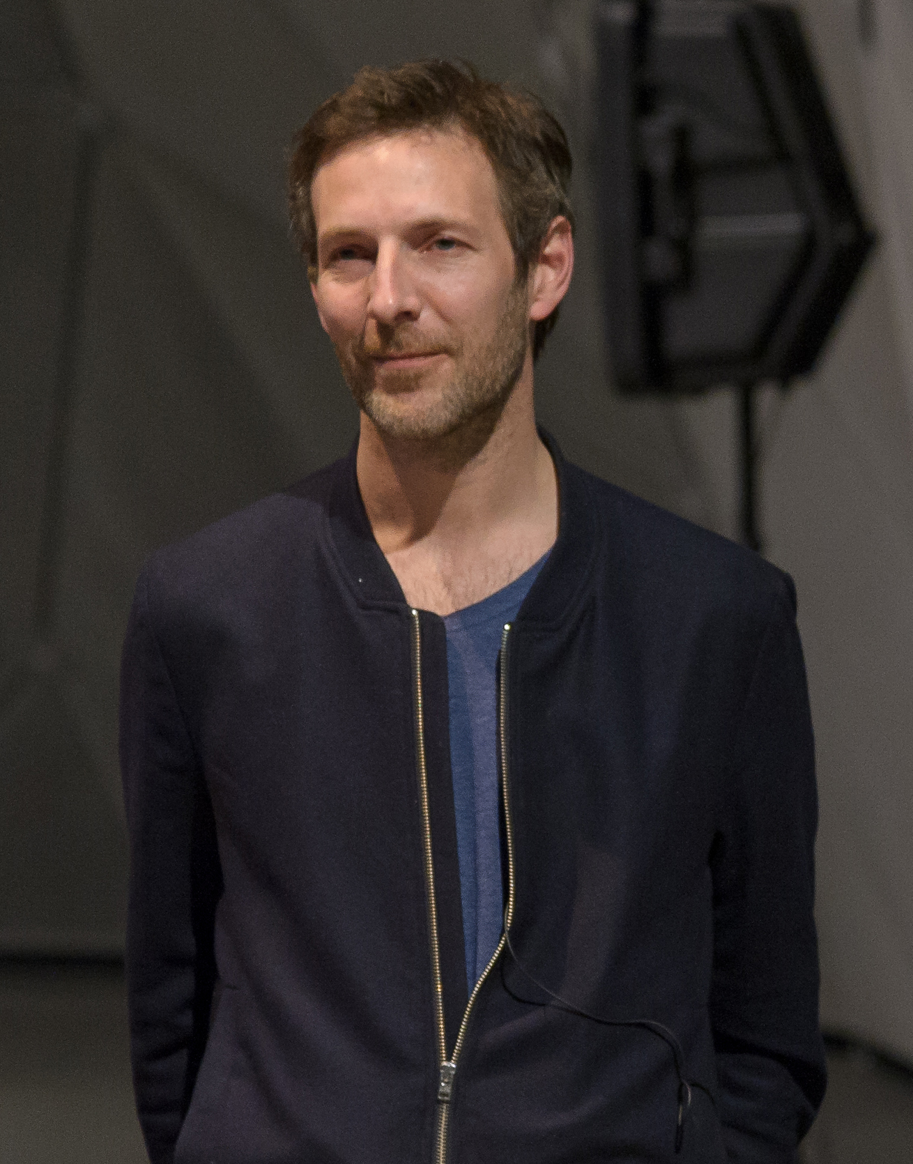 Constantin Luser